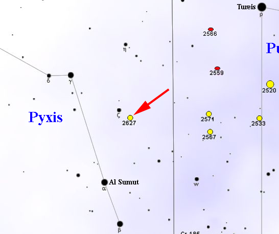 Map of NGC 2627